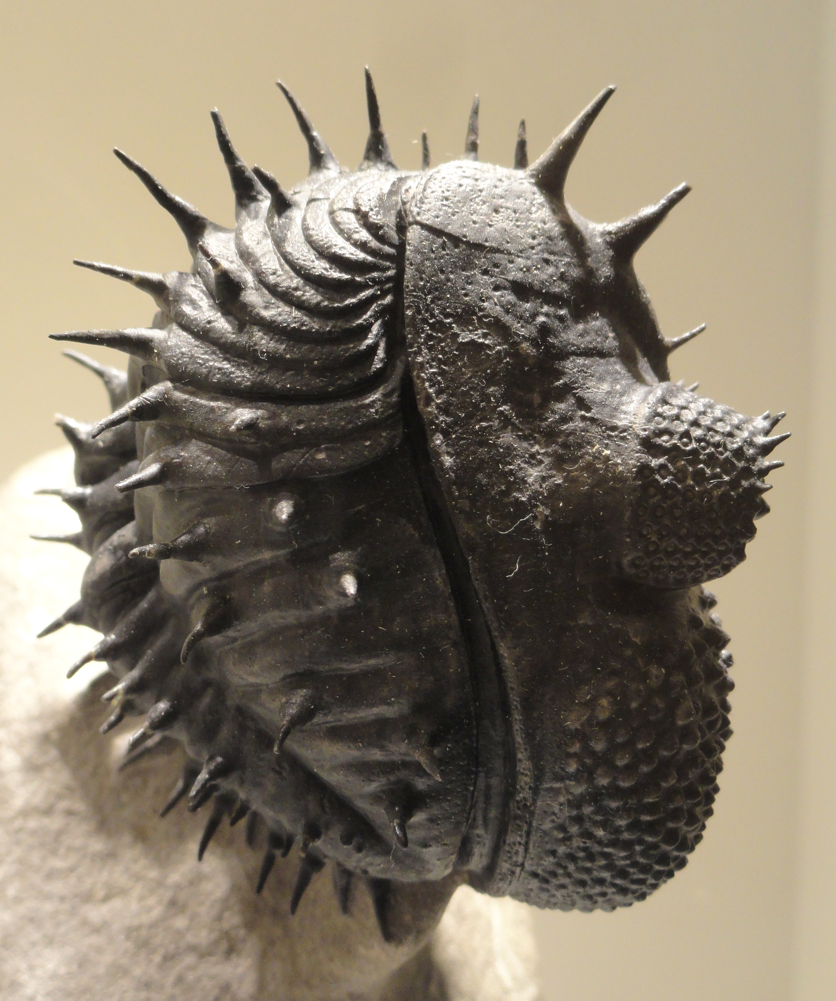 Enrolled Drotops armatus, Middle Devonian, Bou DOb Formation, Jbel Issoumour & Jbel Mrakib, MaOder Region, Morocco - Houston Museum of Natural Science - DSC01521 Exhibit in the Houston Museum of Natural Science, Houston, Texas, USA.